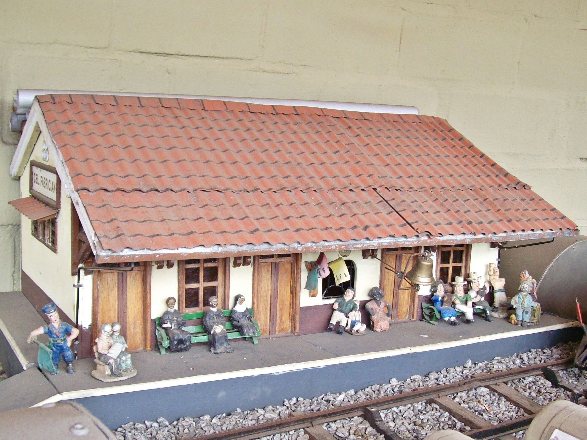 Replica of the Calado train station in the Saint Sebastian Cathedral, in Coronel Fabriciano, Minas Gerais, Brazil.